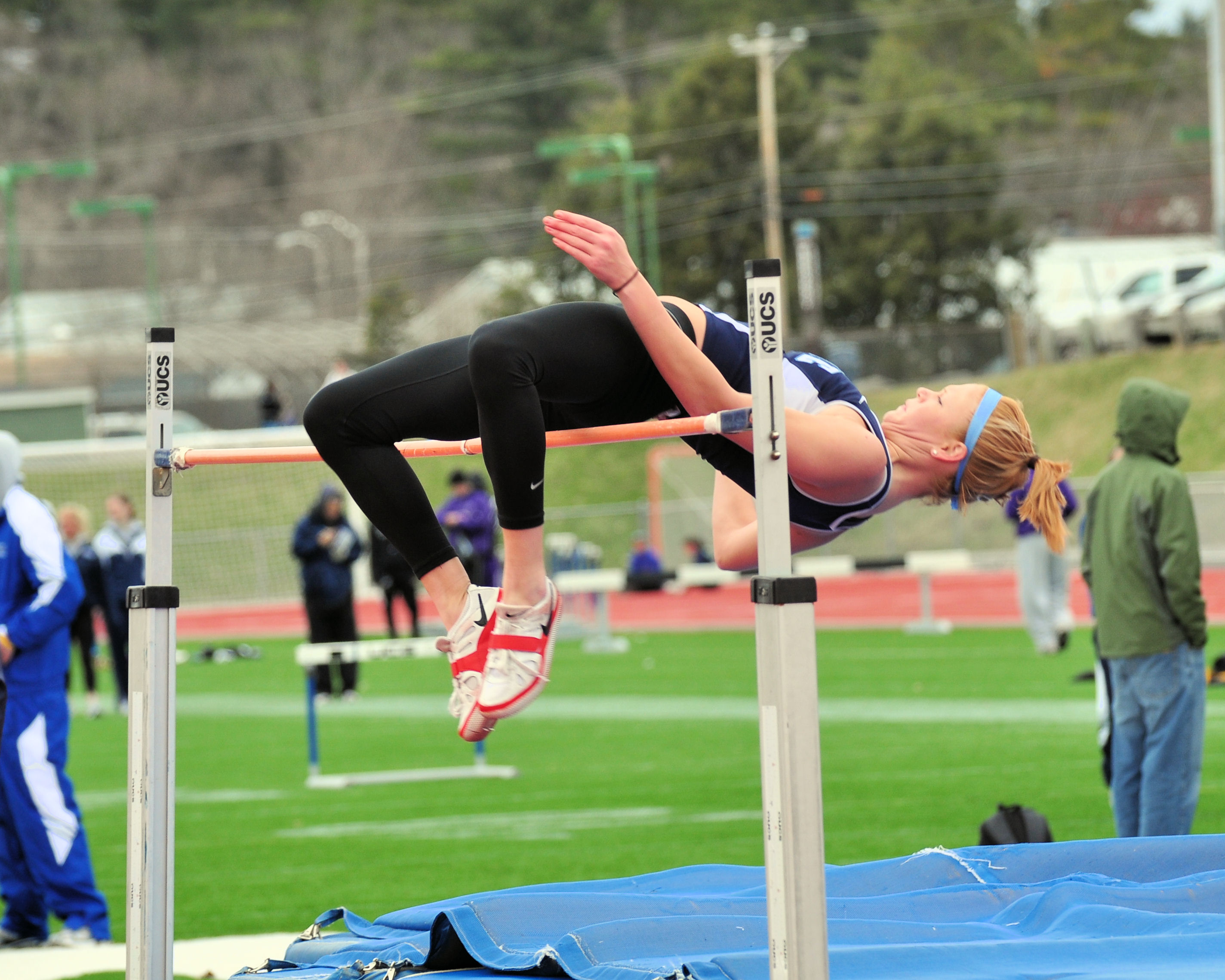 Women's high jump.